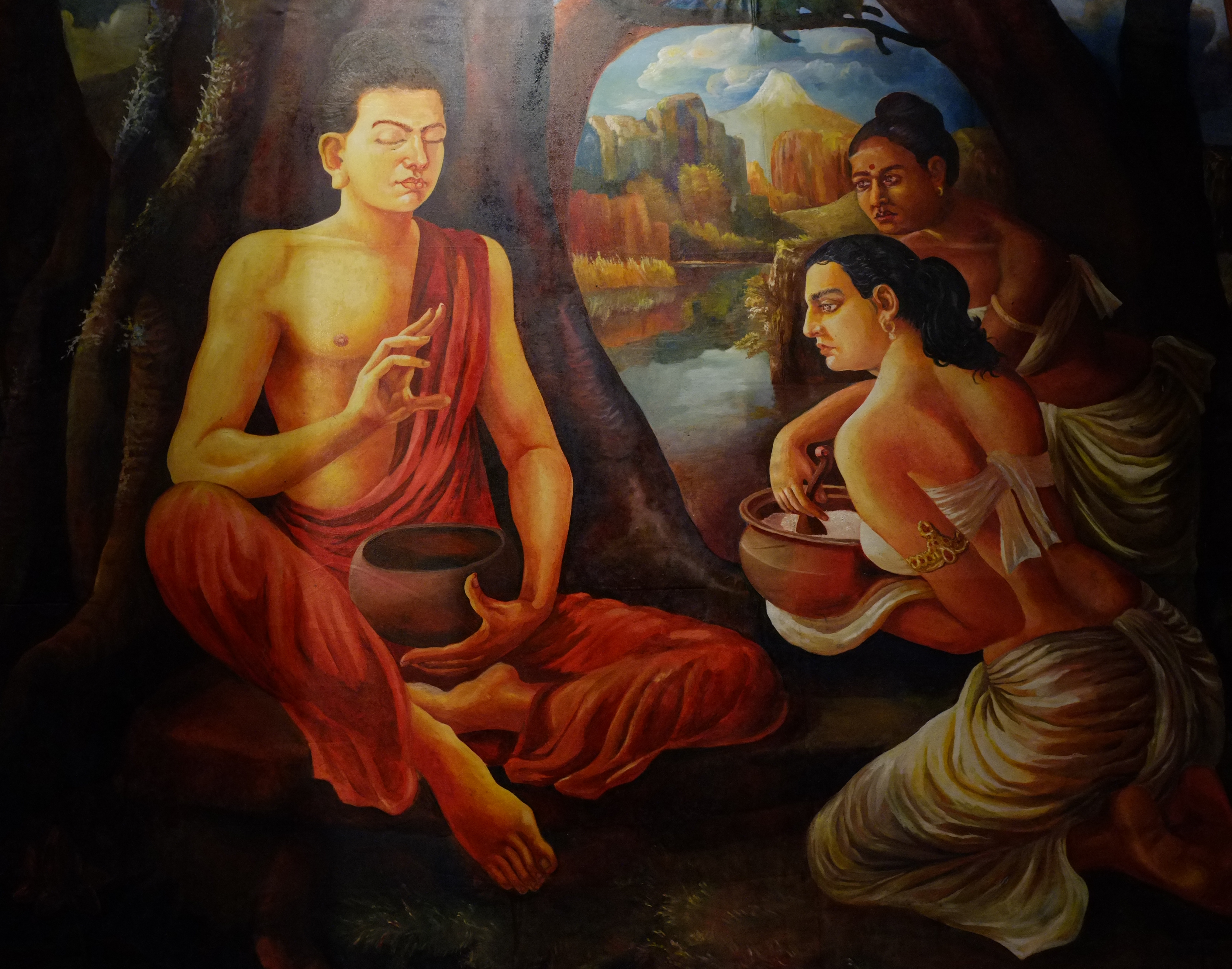 Sujata in Sri Dalada Maligawa